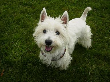 West Highland Terrier